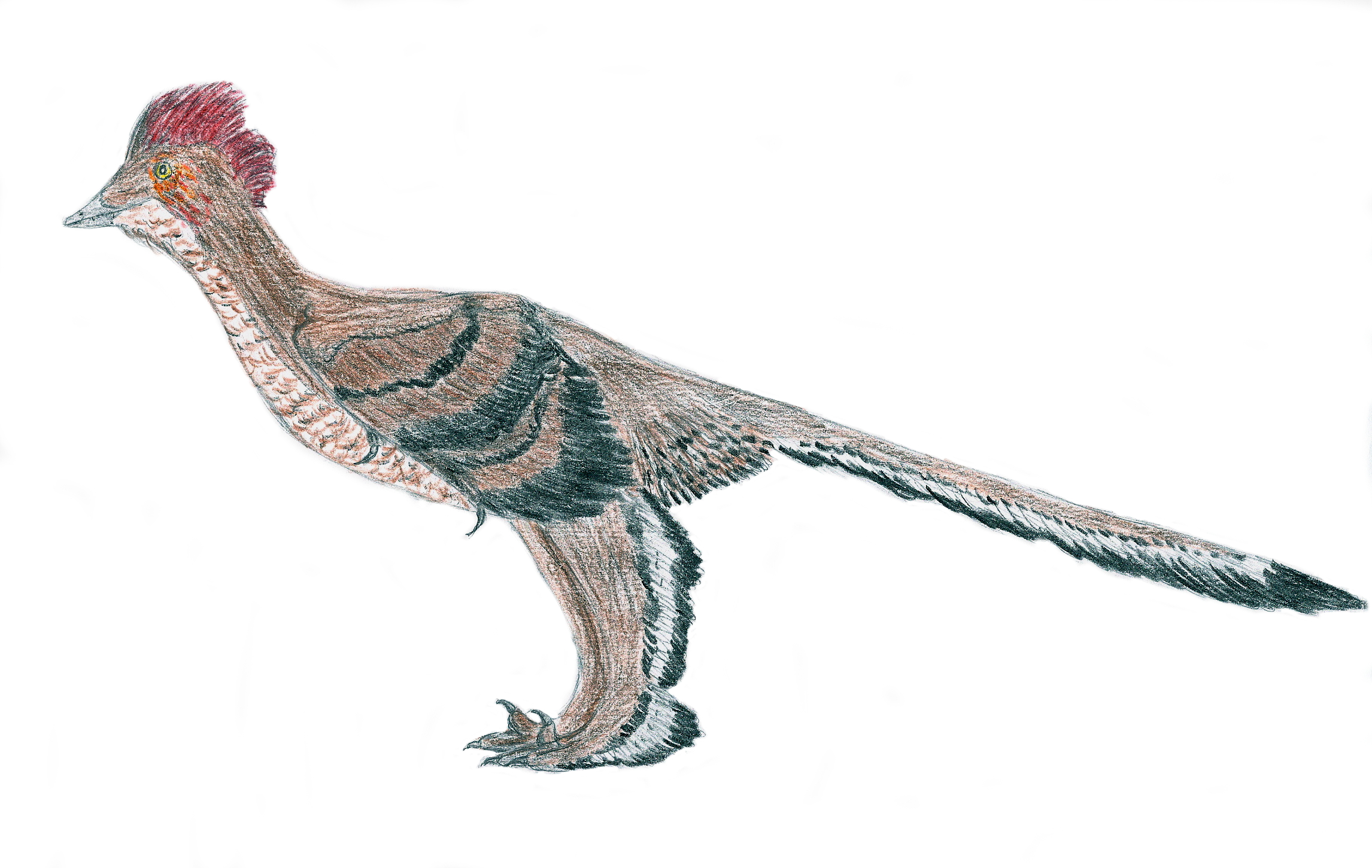 Xiaotingia zhengi, an archaeopterygian which lived in China 150 million years ago